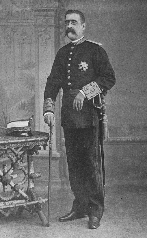 Basilio Augustin y Dávila, last Spanish governor-general of the Philippines, from April 11 to July 24, 1898.